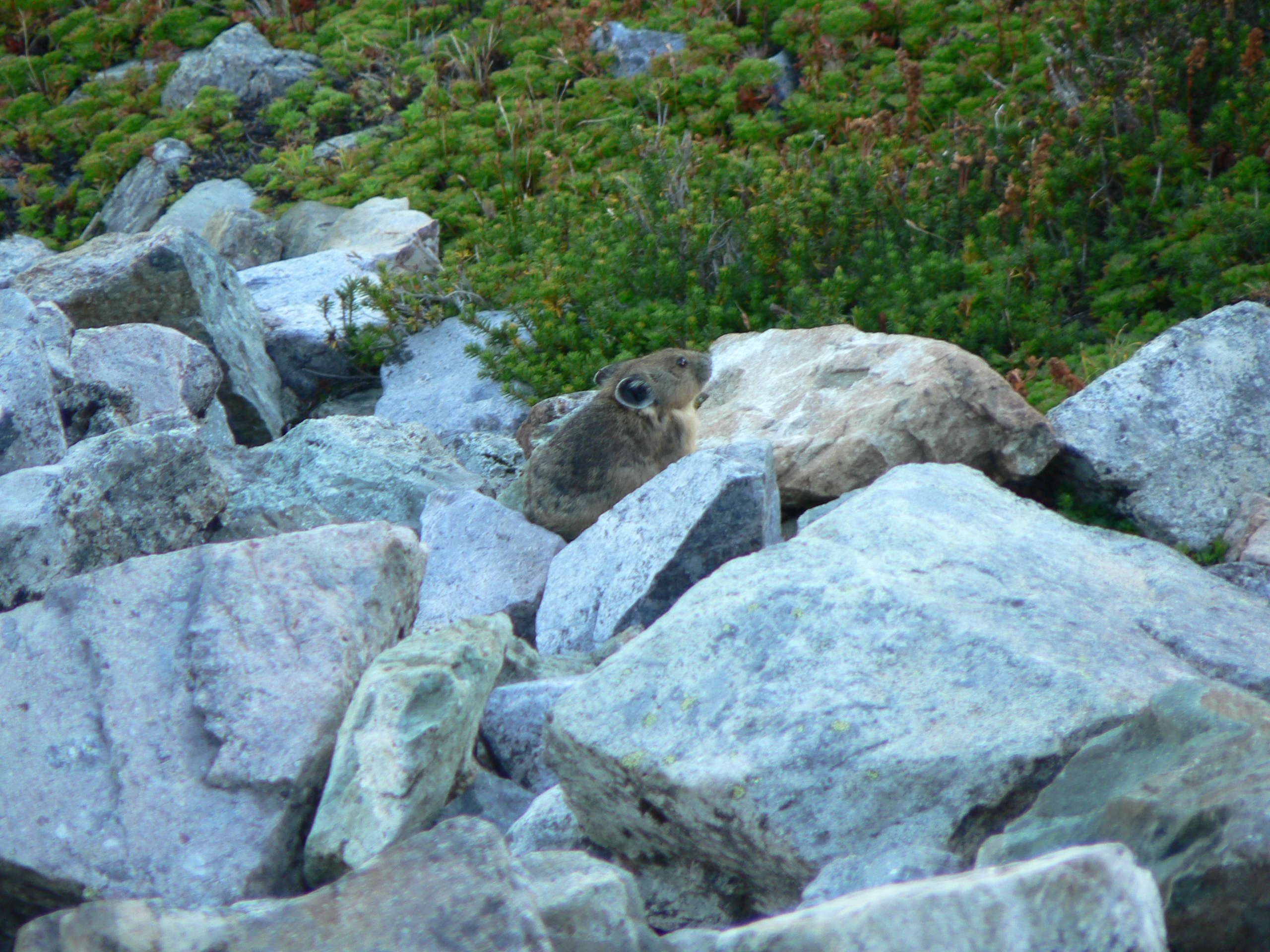 American Pika